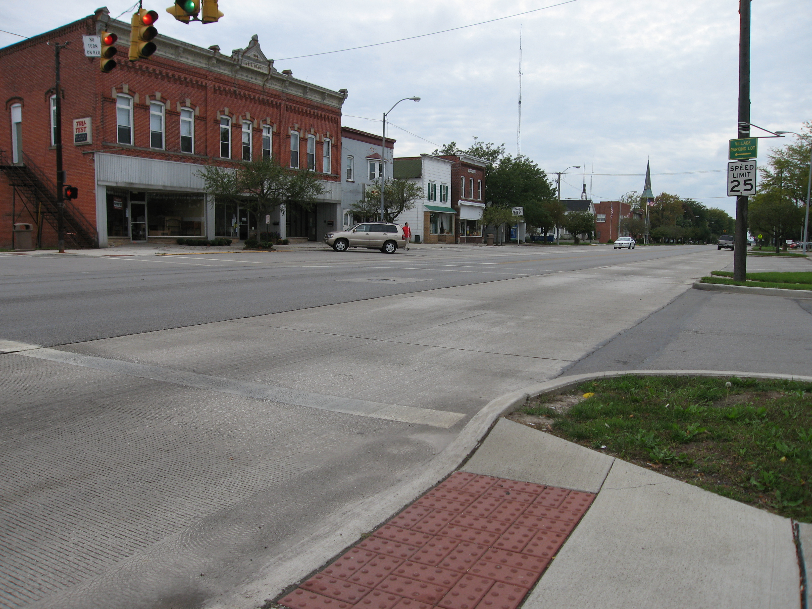 Photograph of the village of Woodville, Ohioen, taken at street level from Main Street, looking North East on the concurrent routes of Ohio 105 and U.S. 20.